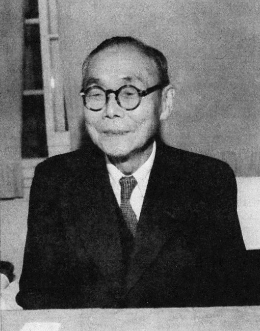 Kenzo Futaki